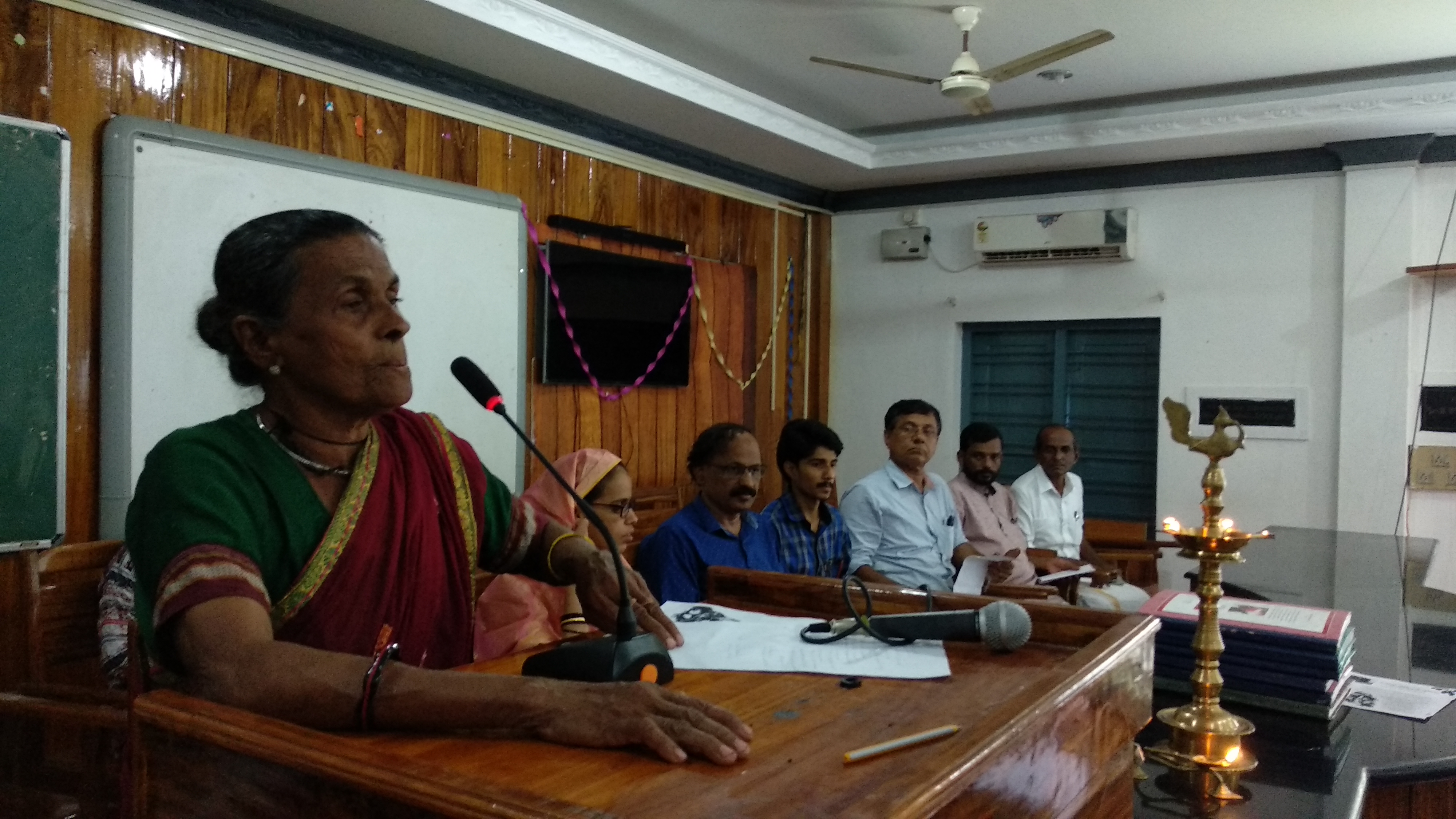 Daya Bai ( Mercy Mathew)_A social activist from Kerala